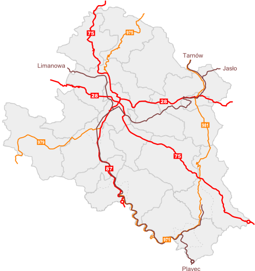 Main roads and railways in Nowy Sącz County